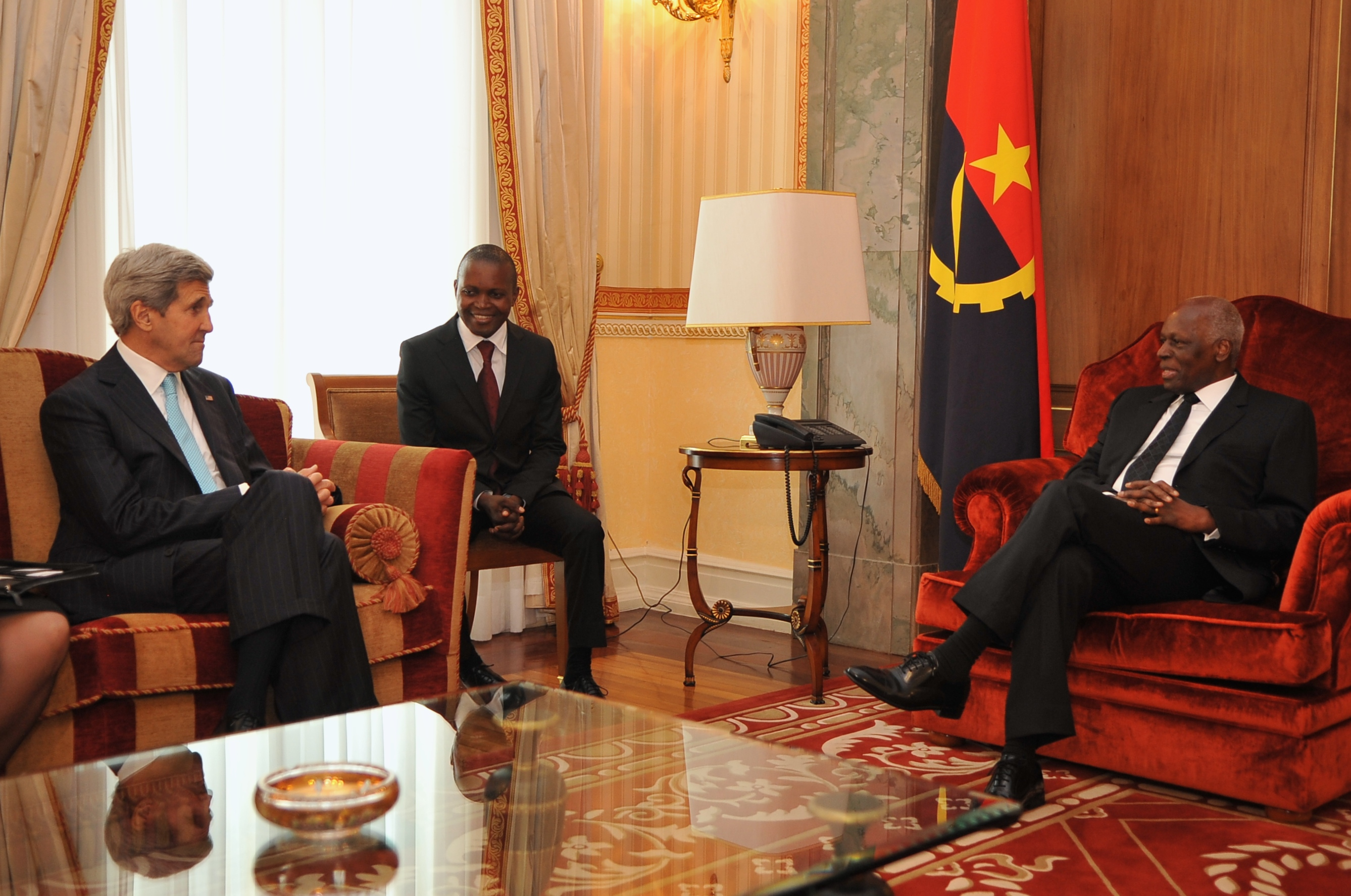 U.S. Secretary of State John Kerry and Angolan President Jose Eduardo dos Santos chat before their bilateral meeting at the Presidential Palace in Luanda on May 5, 2014.